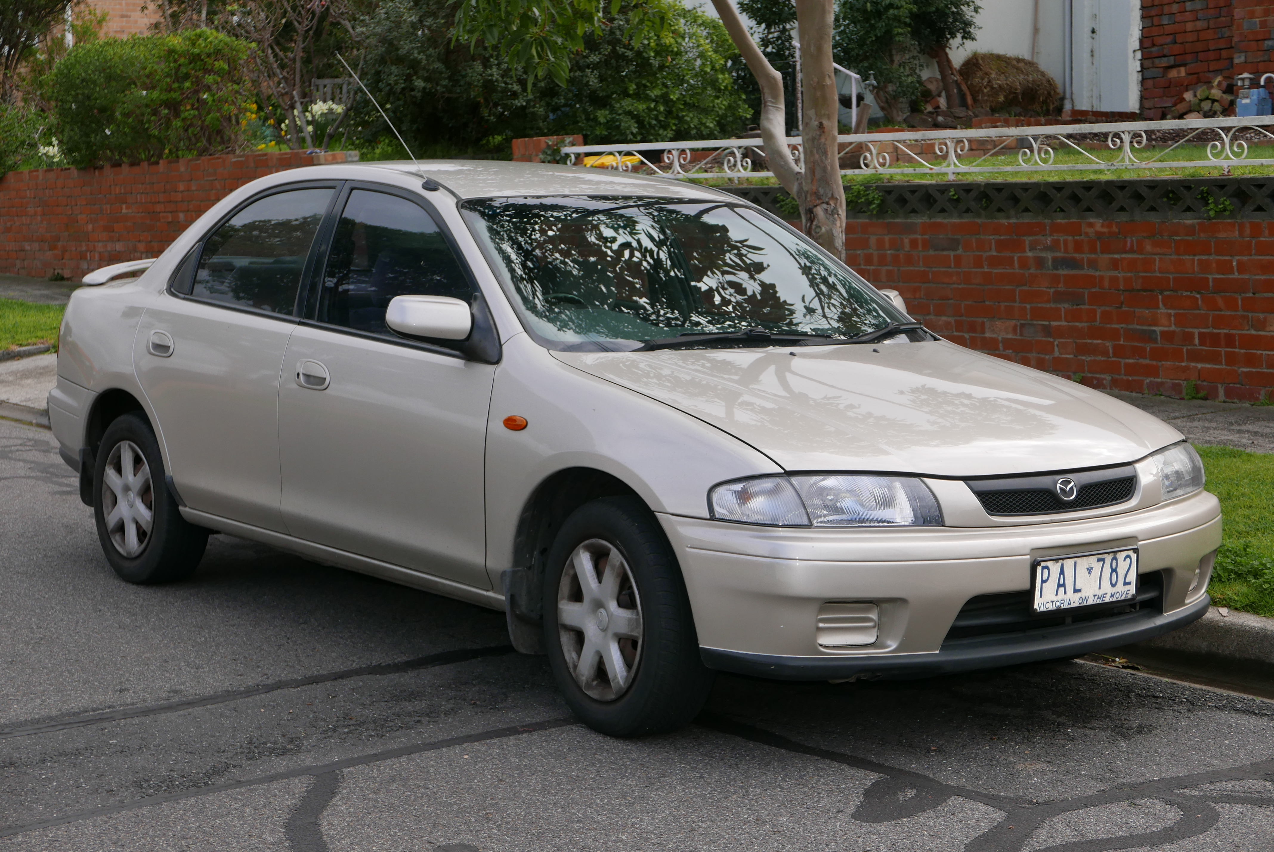 1998 Mazda 323 (BA Series 3) Protegé Shades 1.8 sedan. Photographed in Thornbury, Victoria, Australia. Vehicle registration enquiry results Jurisdiction Victoria Registration PAL782 Chassis code JM0BA11P300237456 Engine code BP349400 Compliance date 1998-06 Year of manufacture 1998